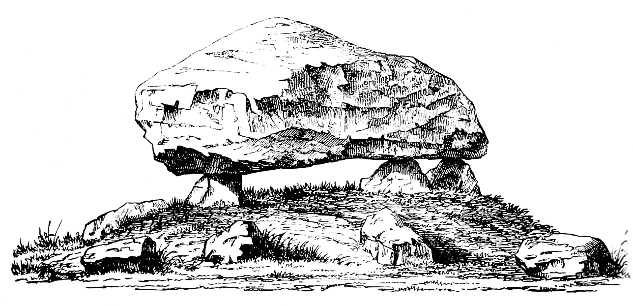 Megalithic Tomb Naschendorf 2 (Sprockhoff-No. 312)